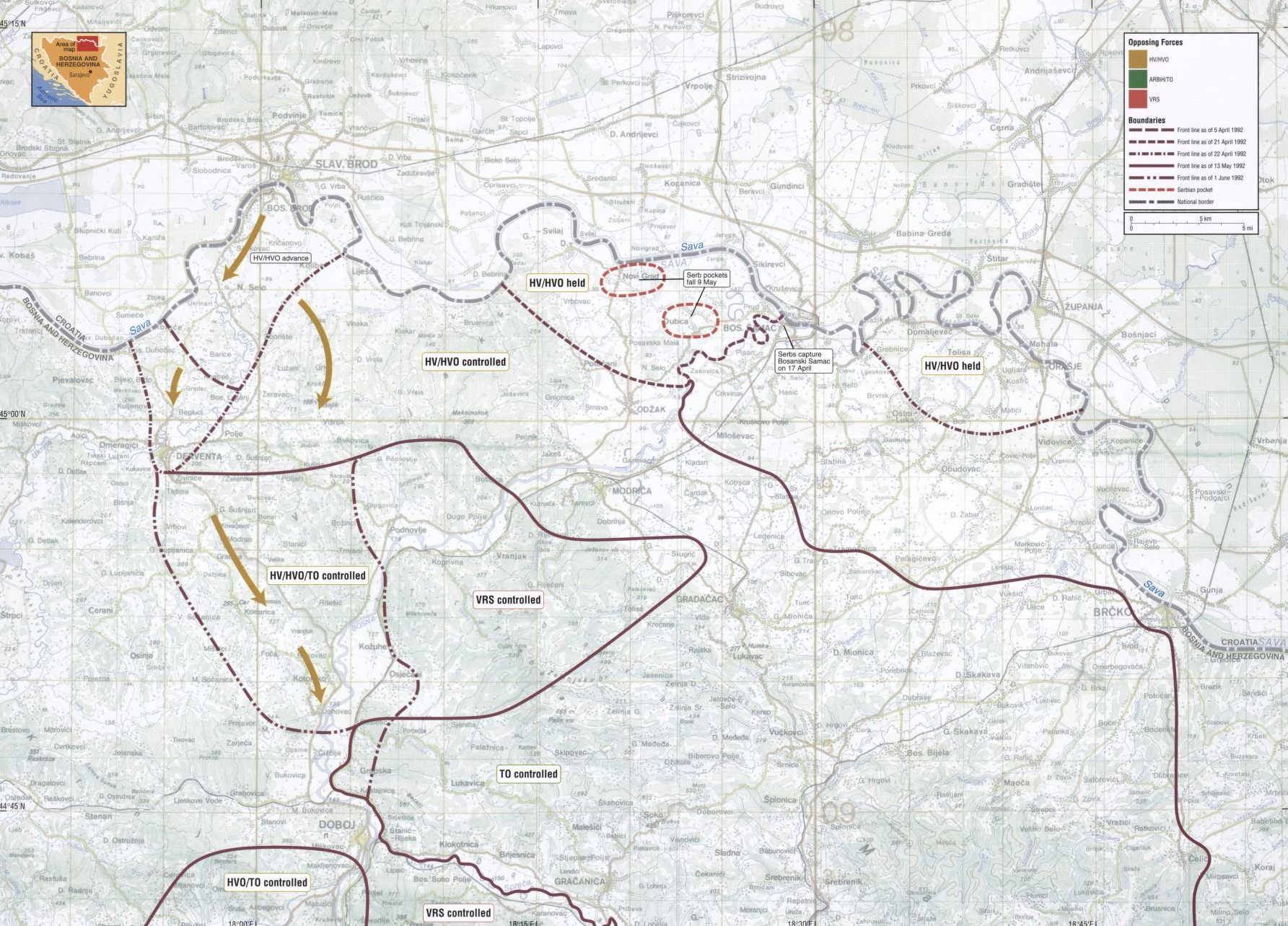 Map of the Posavina Corridor in April-June 1992. Balkan Battlegrounds Map 9